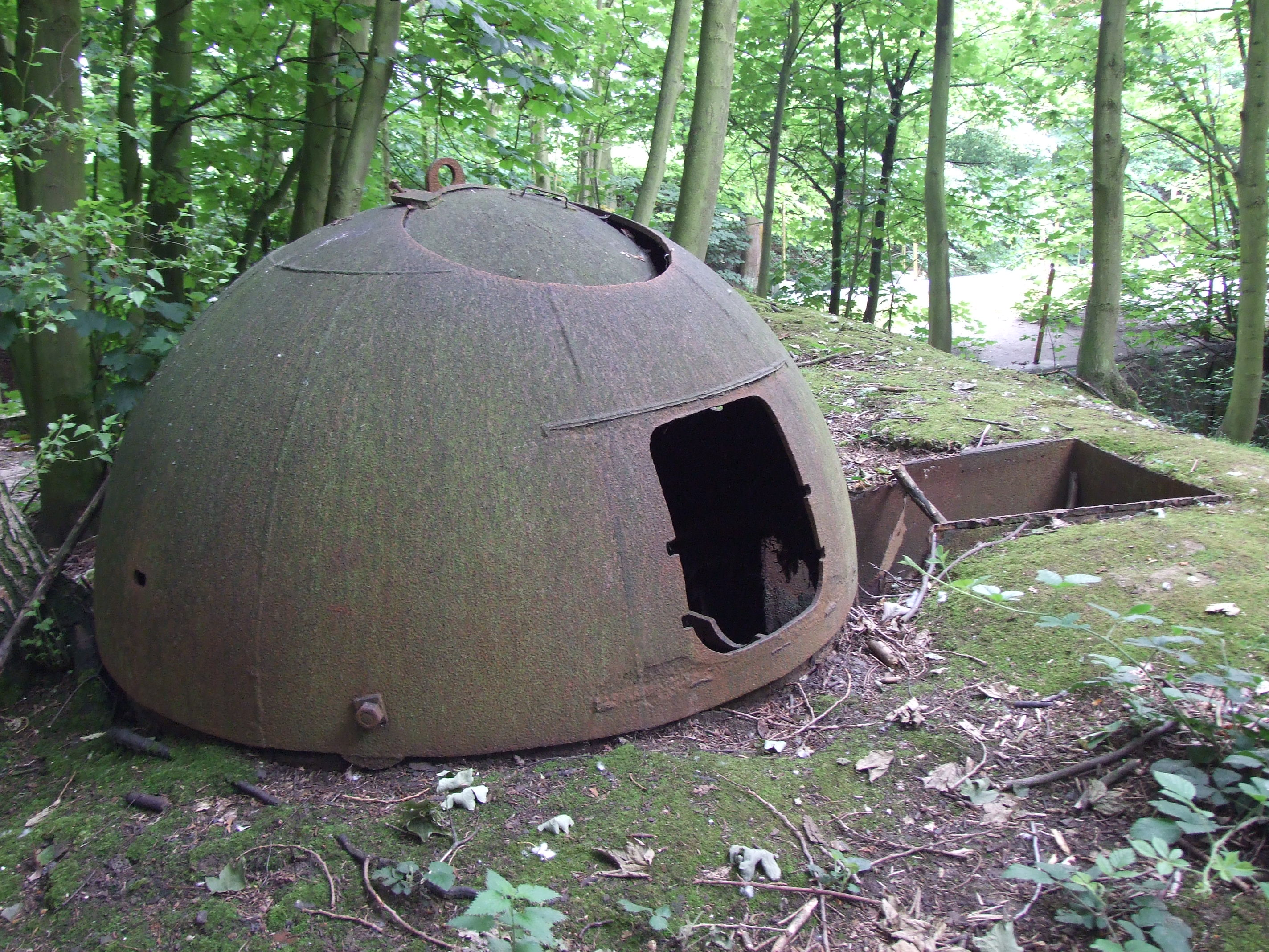 An extant example of an Alan Williams Turret - a type of WWII fortification